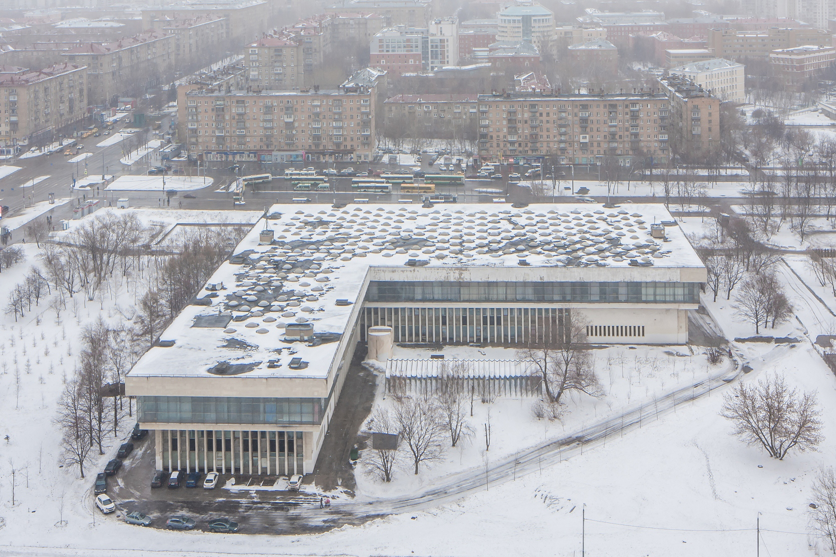 Institute of Scientific Information on Social Sciences of the Russian Academy of Sciences